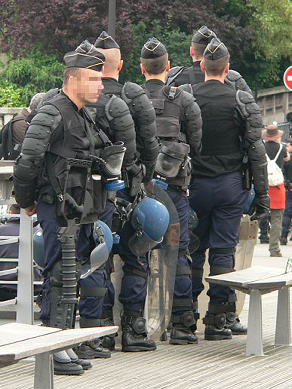 Gendarmes mobiles preparing for riot control on the evening after the second round of balloting of the French presidential election, 2007. Equipment includes: body armor a shield an Alsetex Cougar grenade launcher (for tear gas) a gas mask